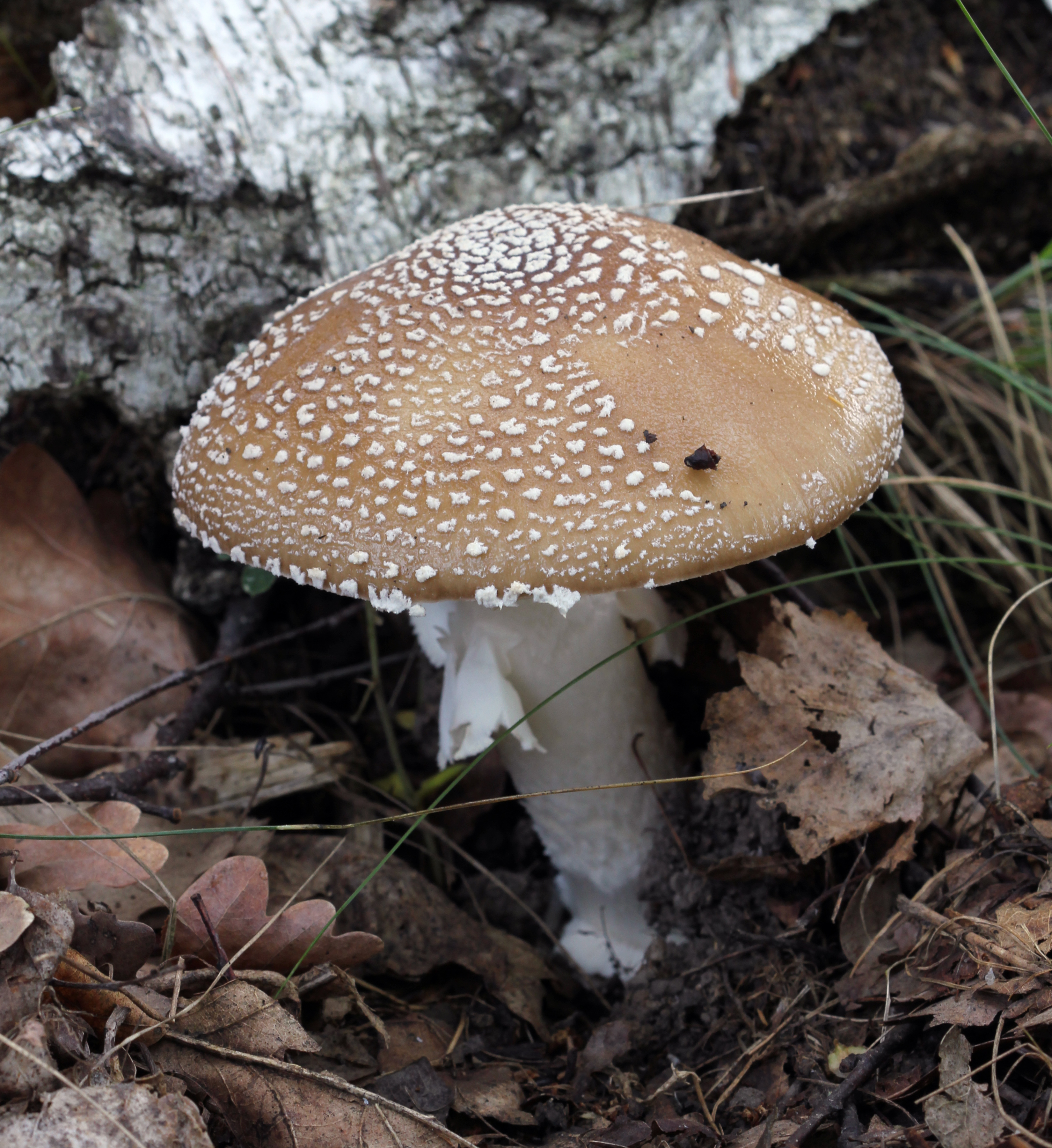 Panther cap, false blusher. Ukraine.